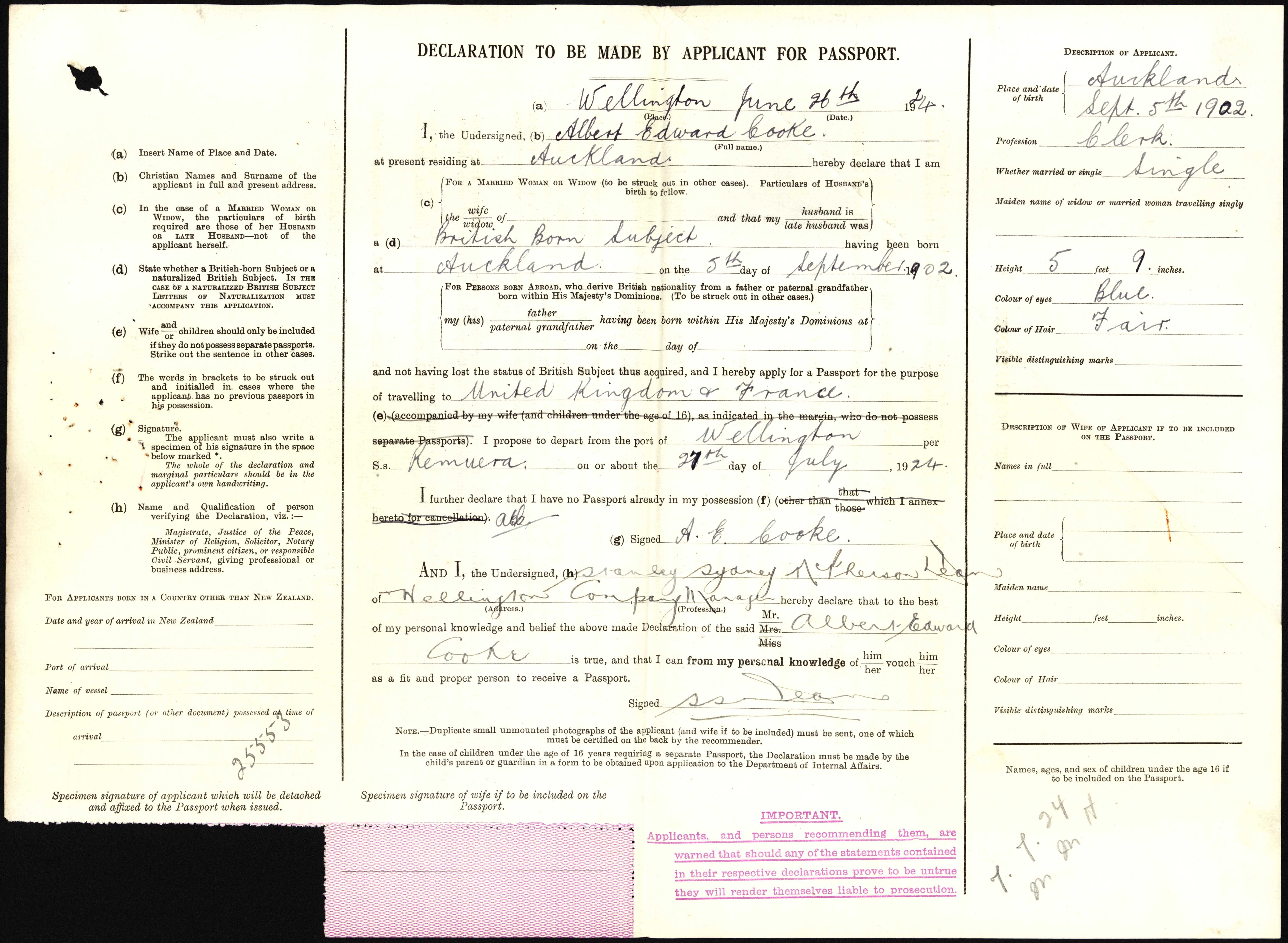 ACGO 8333 IA1 1349 / 15/11/17721 Albert Cook passport application (1924)